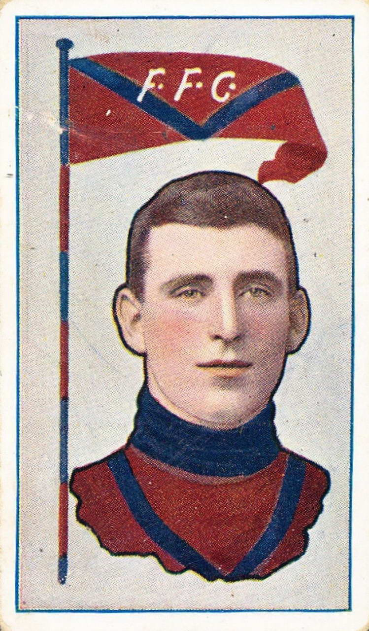 Cigarette card of Cliff Hutton from the 1912 Sniders & Abrahams series.